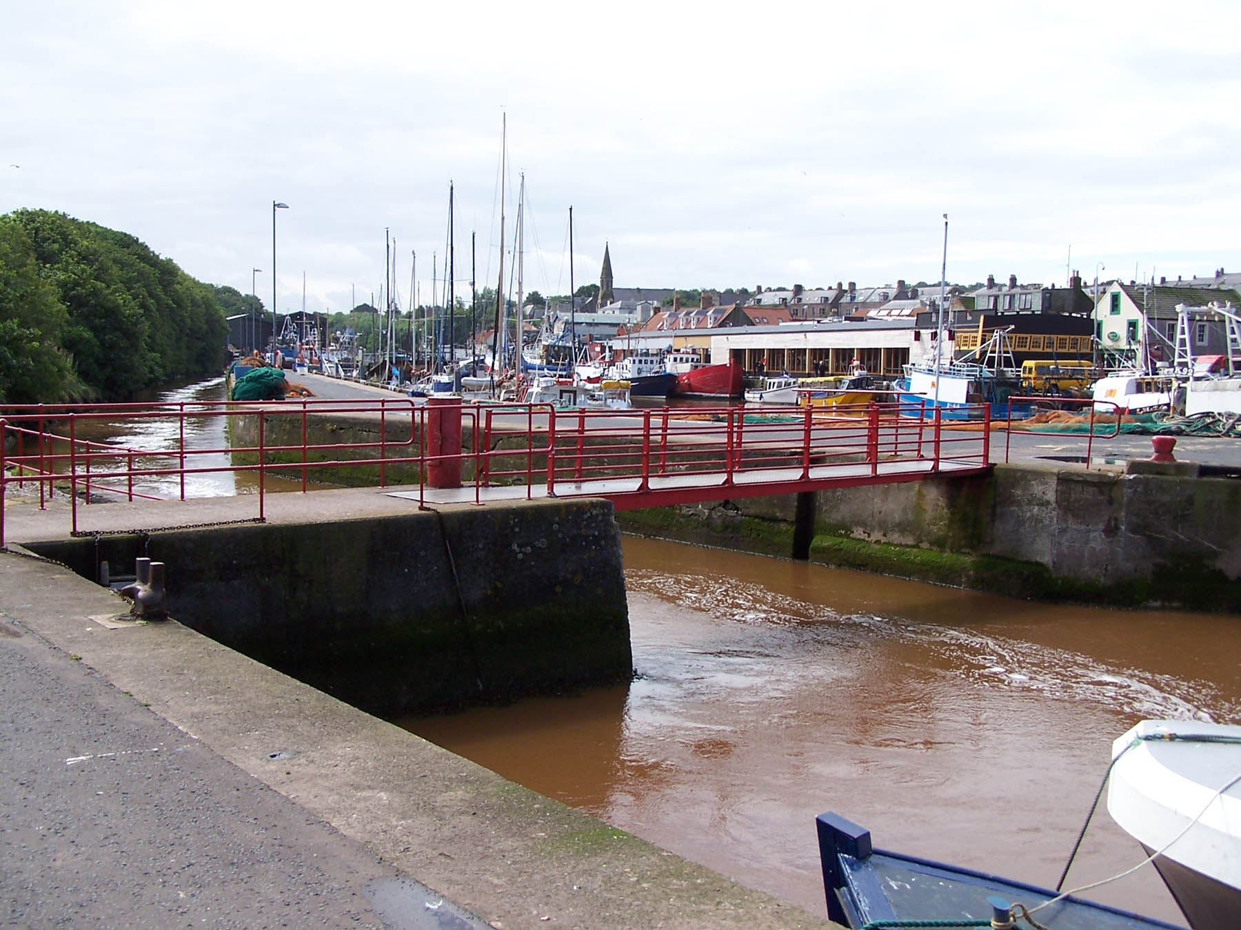 The Eye Water enter Eyemouth harbour